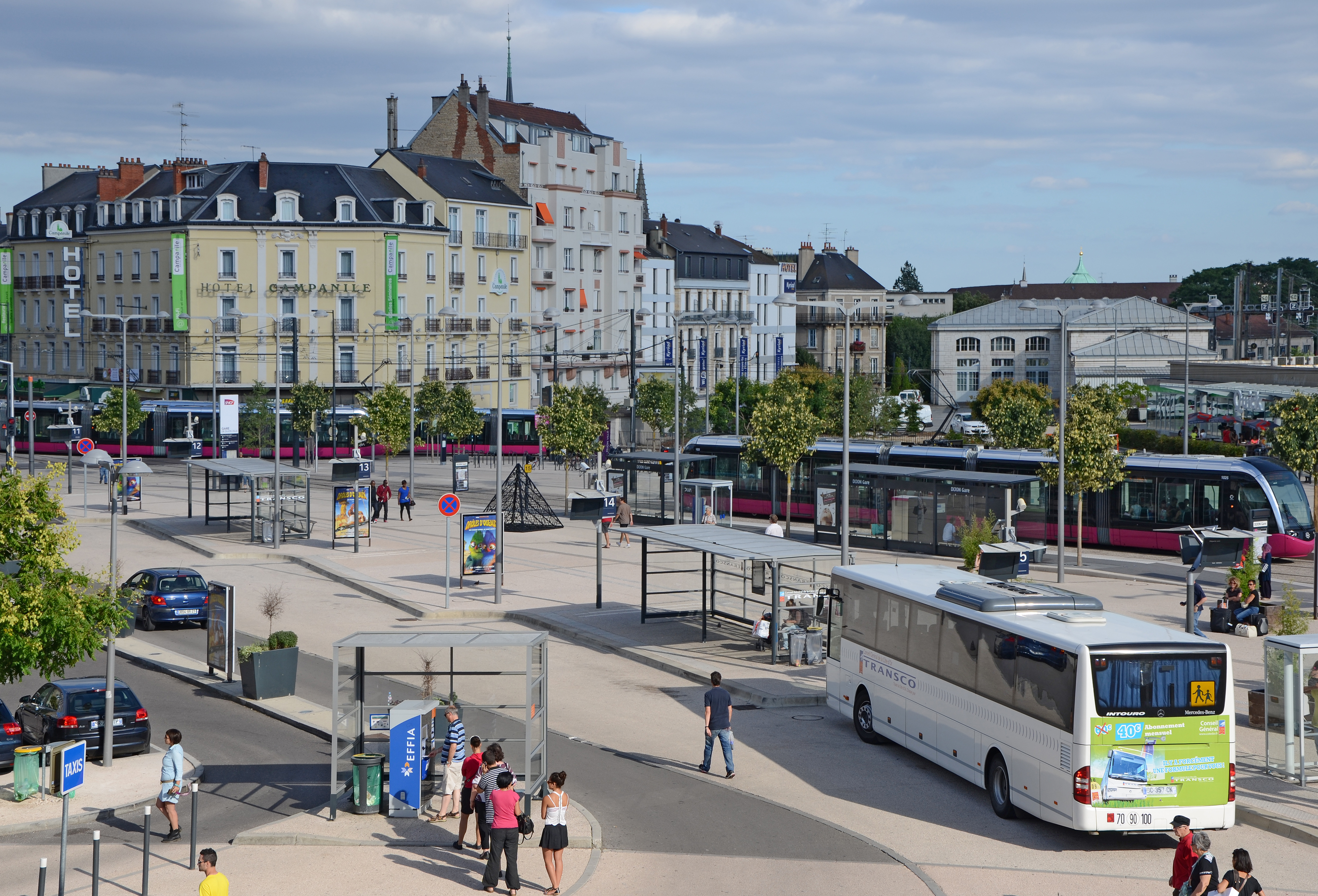 Bus and tram station of the main railways station Dijon, Côte d'Or, France